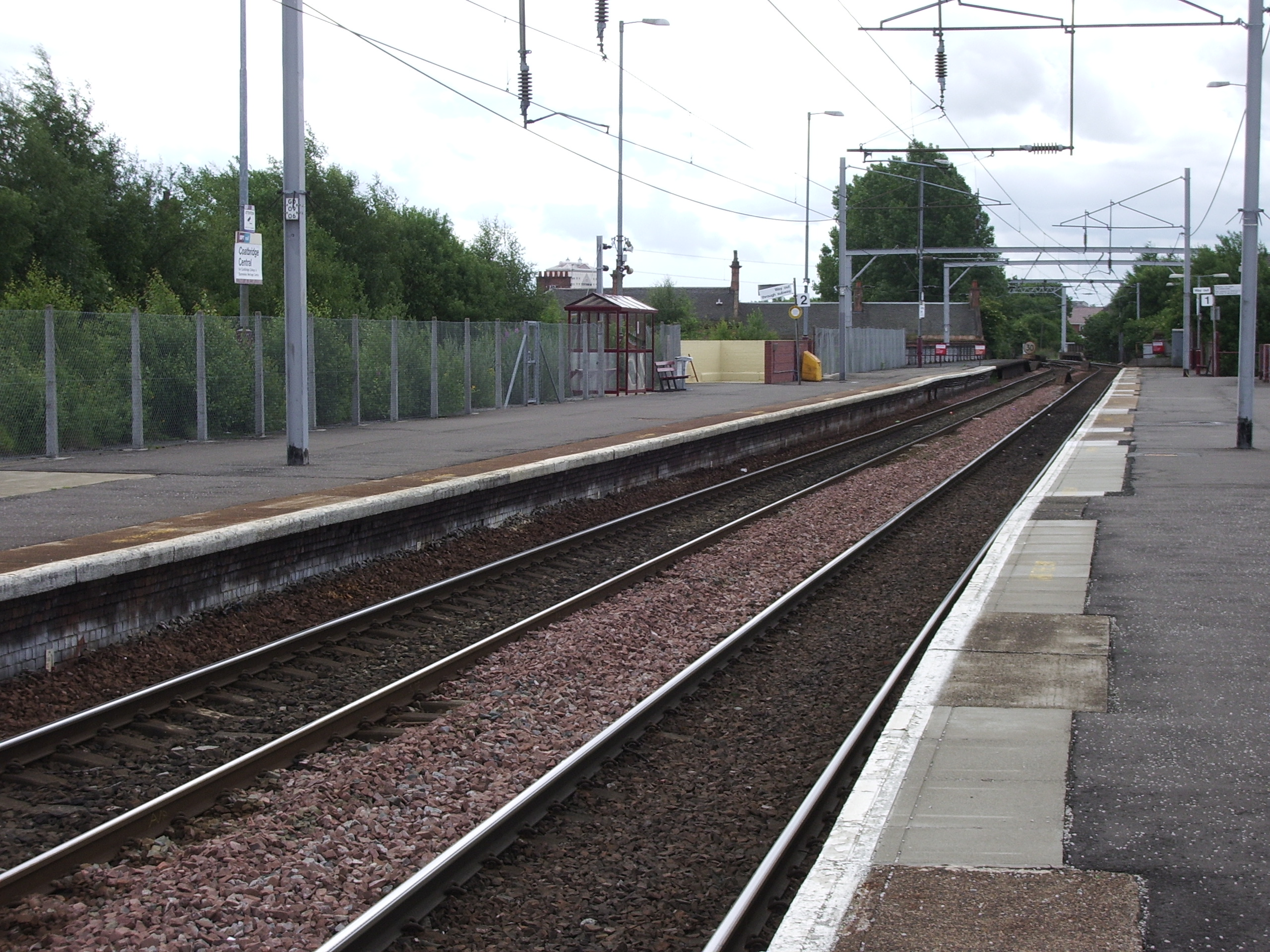 Coatbridge Central railway station, Coatbridge, Scotland, looking south